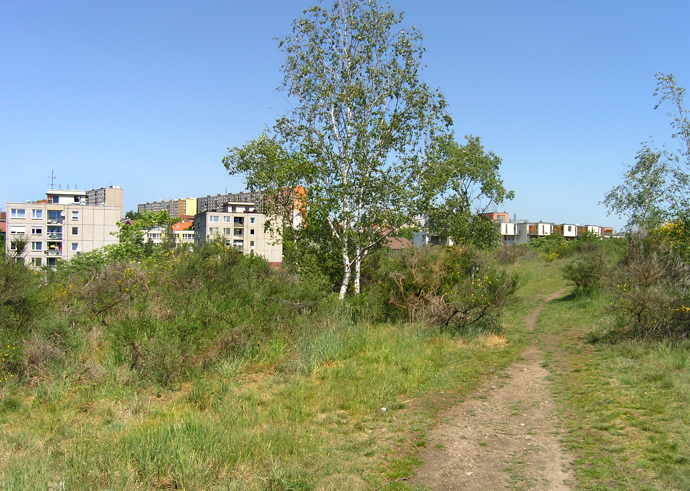 Natural reserve V Hrobech and housing estate Lhotka-Libuš, Prague